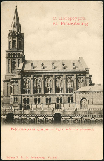 Deutsche Reformed Churche in Saint Petersburg, Russia